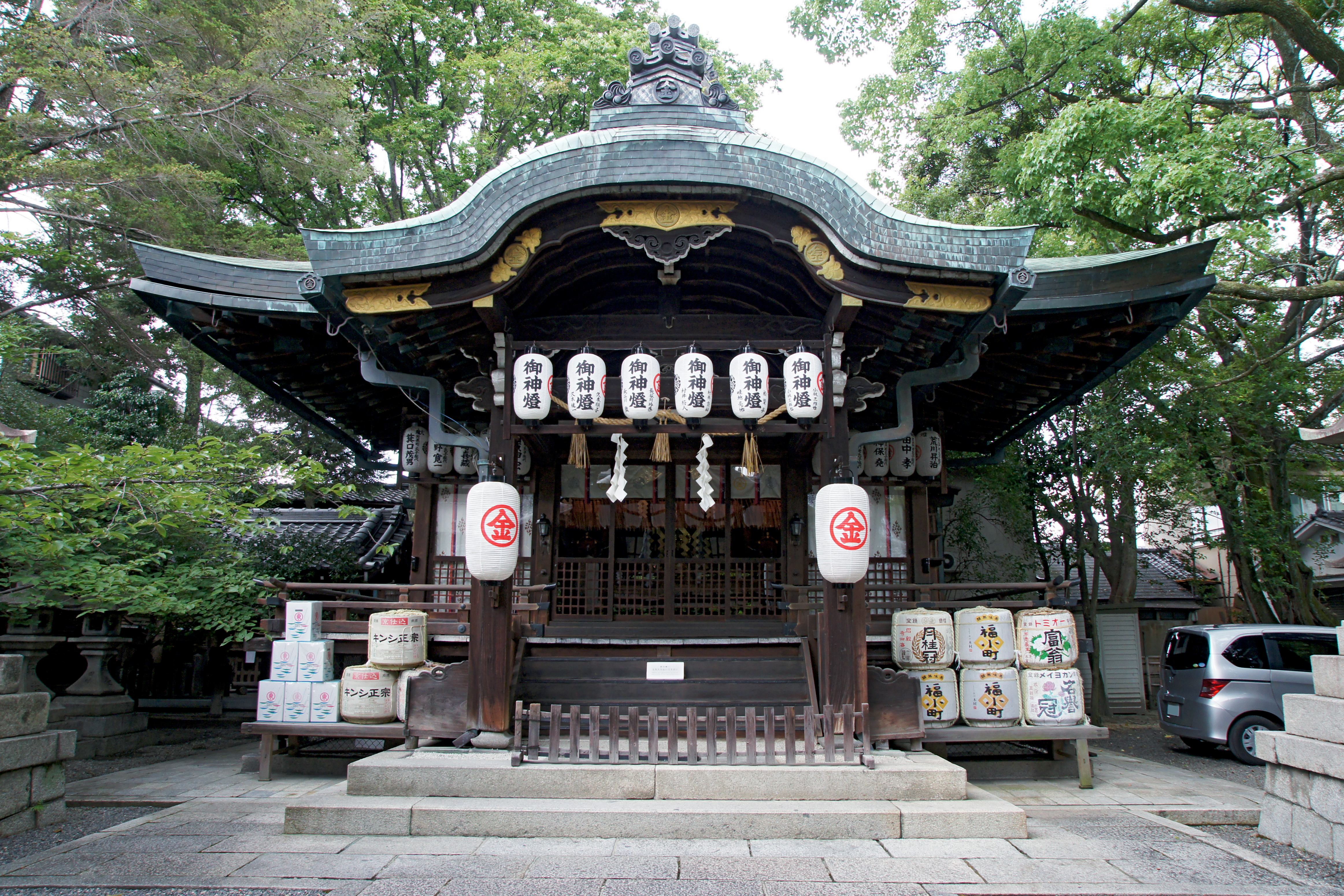 Yasui Kompira-gu in Kamigyō-ku, Kyoto, Kyoto Prefecture, Japan